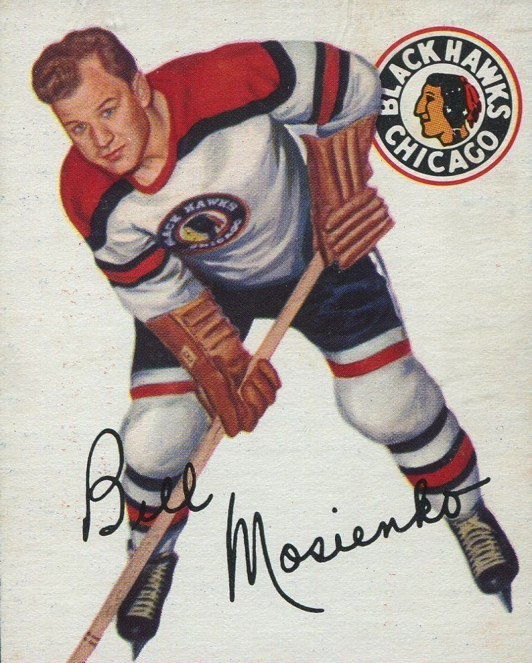 Bill Mosienko, Chicago Blak Hawks